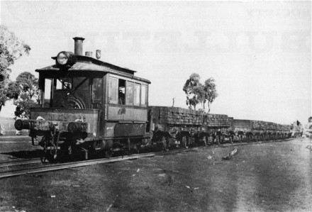 Sydney Steam Tram Motor 103A used on construction of Captain's Flat railway